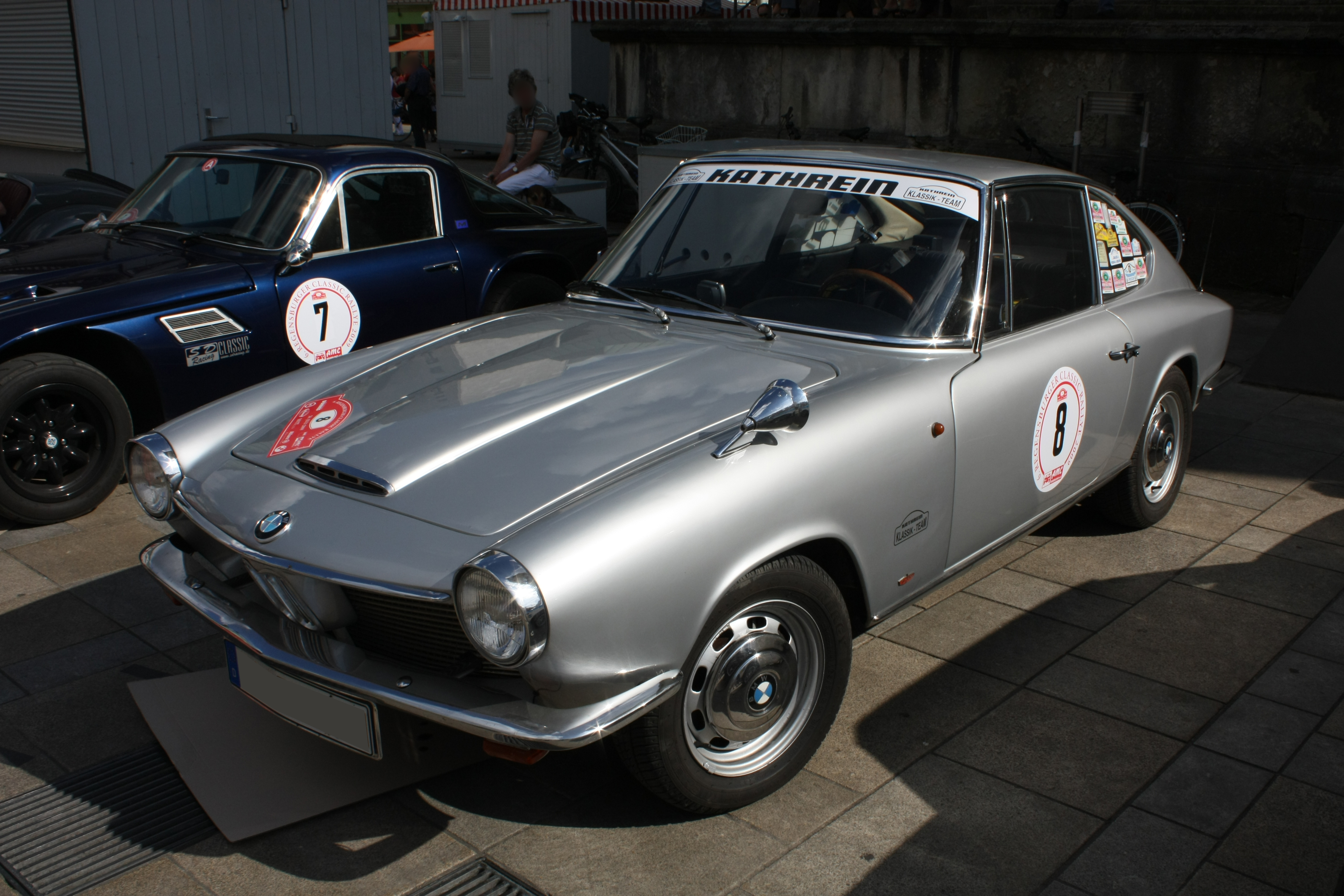 BMW 1600 GT